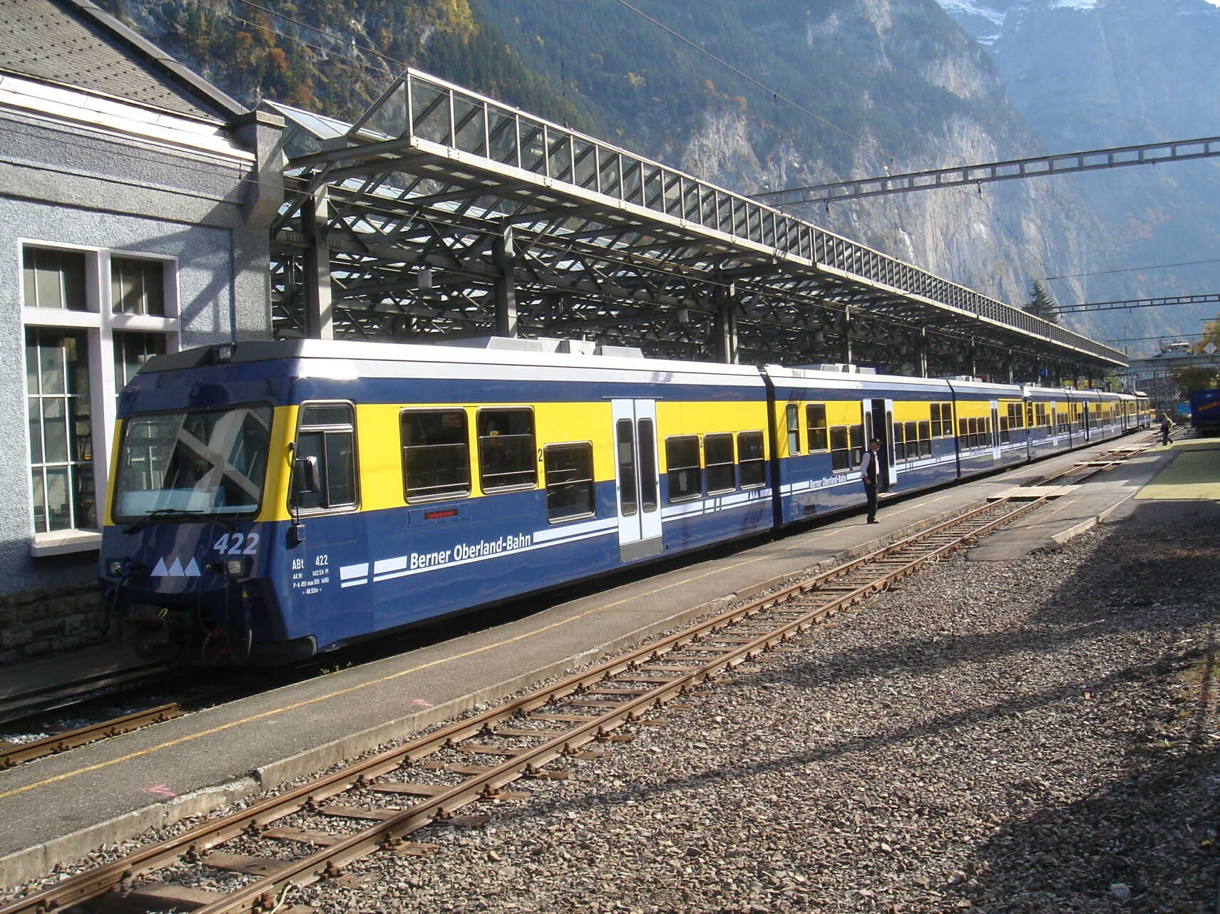 During the closure of the Grindelwald line after heavy rainfalls with landslides, two pairs of the then new articulated driving trailers were used in the Interlaken - Lauterbrunnen services.